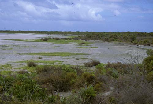 Kiritimati Island's Central Lagoon area comparitively lush after a series of rains. Kiritimati, Line Islands, Kiribati. Original field note from author: Primarily sea purslane, tree heliotrope, and some upright suriana